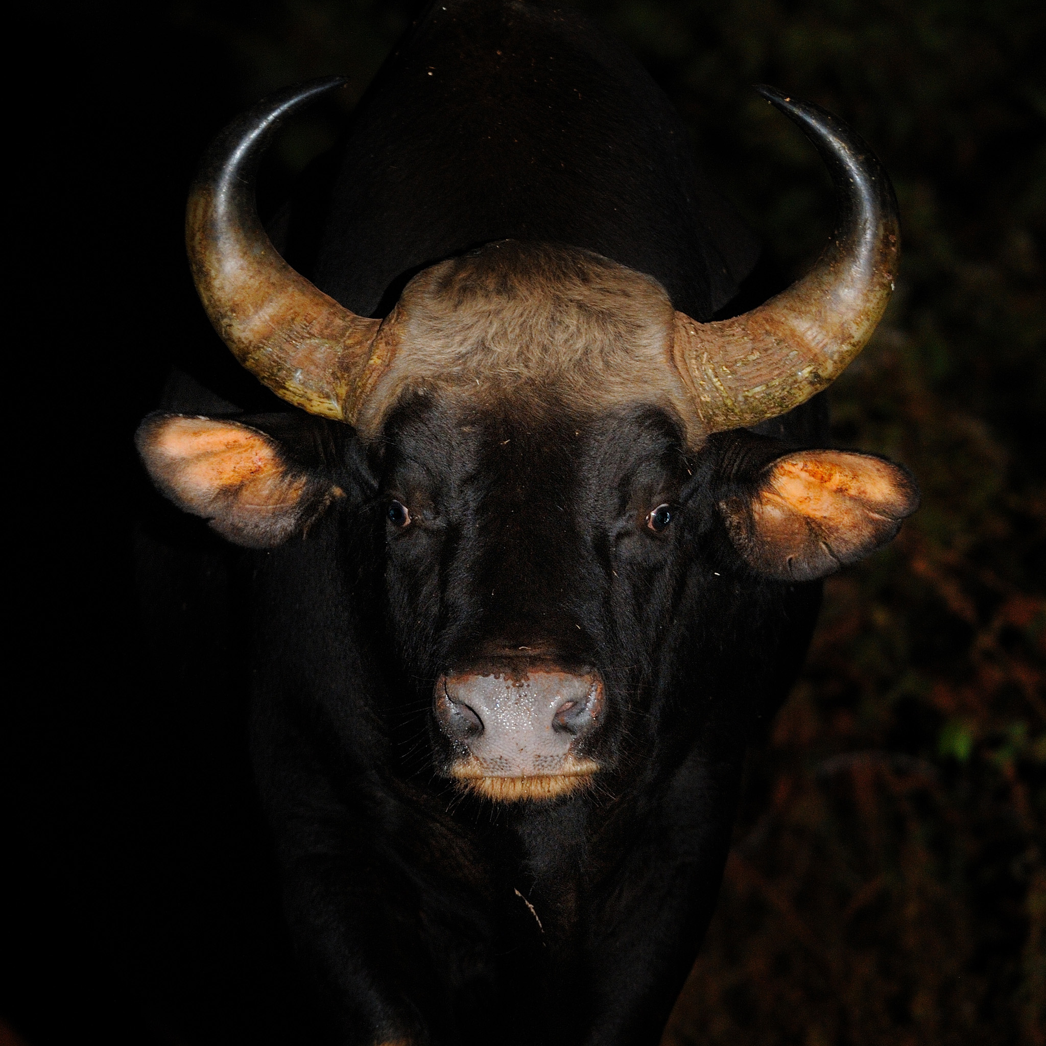 Gaur, Bos gaurus bull night portrait in Pangsida national park, Thailand. This photo is published under the Creative Commons Attribution-Share-Alike Licence. You are free to use this image, as long as it is shared with attribution under the same licence together with the appropriate credits: By: Tontan Travel Link